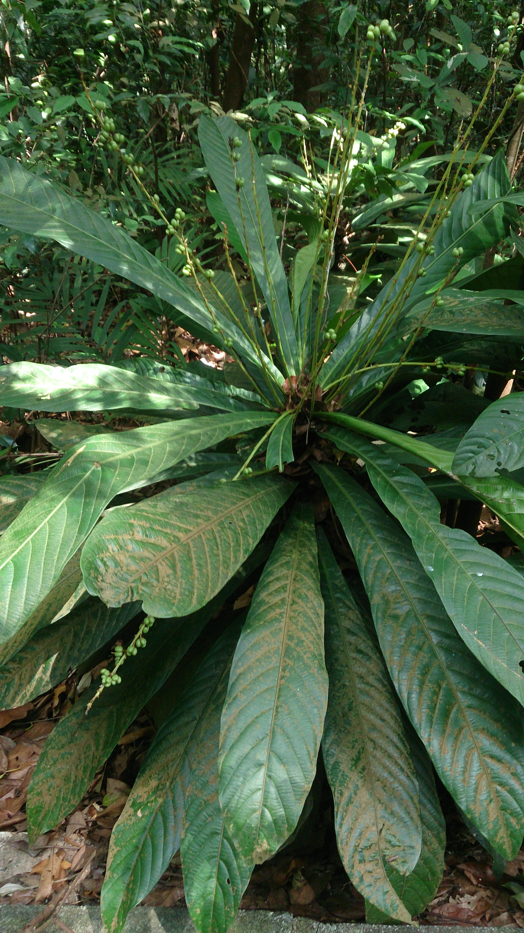 Agrostistachys longifolia. Syn: Agrostistachys borneensis Common names: Leaf Litter Plant. Bornean Jenjulong. Jenjulong. Commonly found near the ground in forests of Singapore.